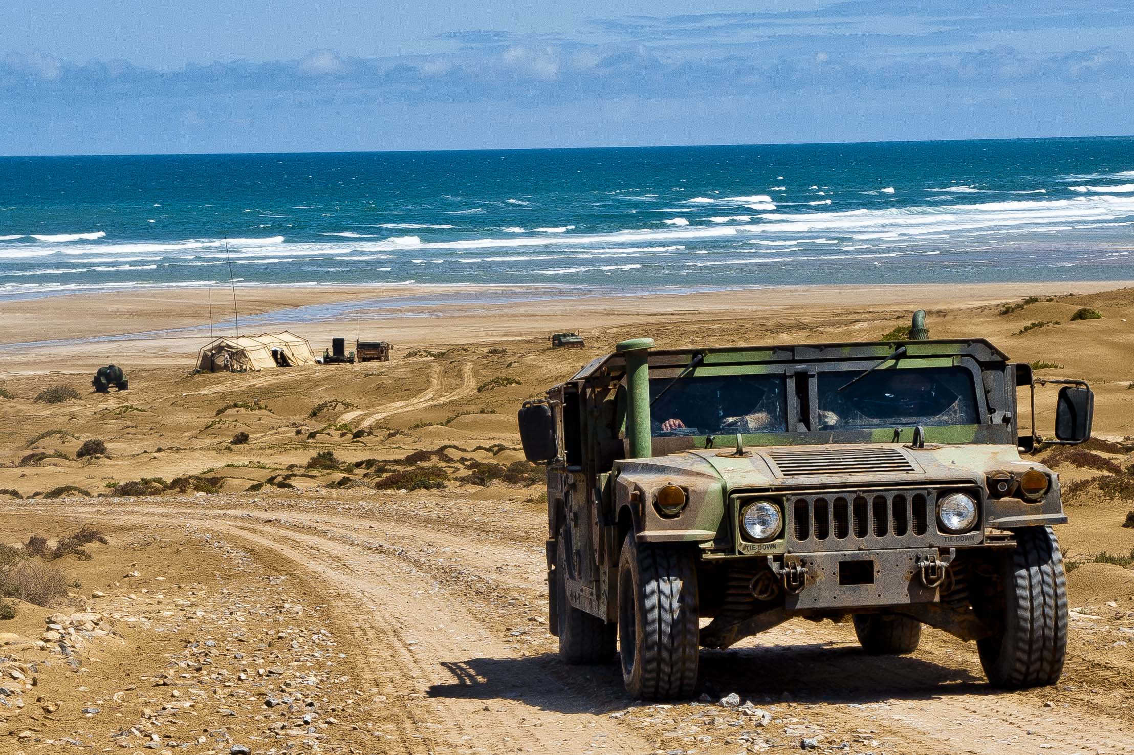 A Humvee assigned to the 24th Marine Expeditionary Unit leaves a camp on the beach at Cap Draa, Morocco, April 12, 2012, during African Lion 2012. African Lion is an annually scheduled joint/combined U.S.-Moroccan exercise sponsored by U.S. Africa Command and designed to promote interoperability and mutual understanding of each nation's military tactics, techniques and procedures.